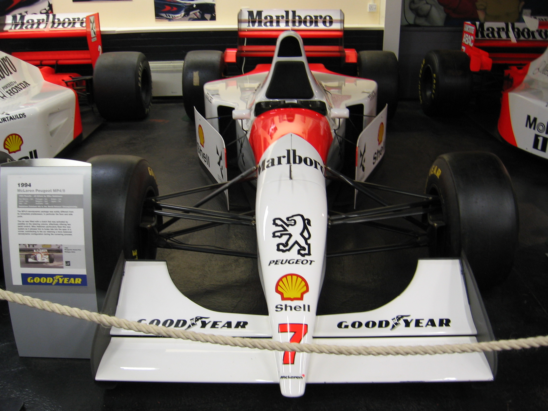 Mclaren MP4/9 on display at The Donington Collection